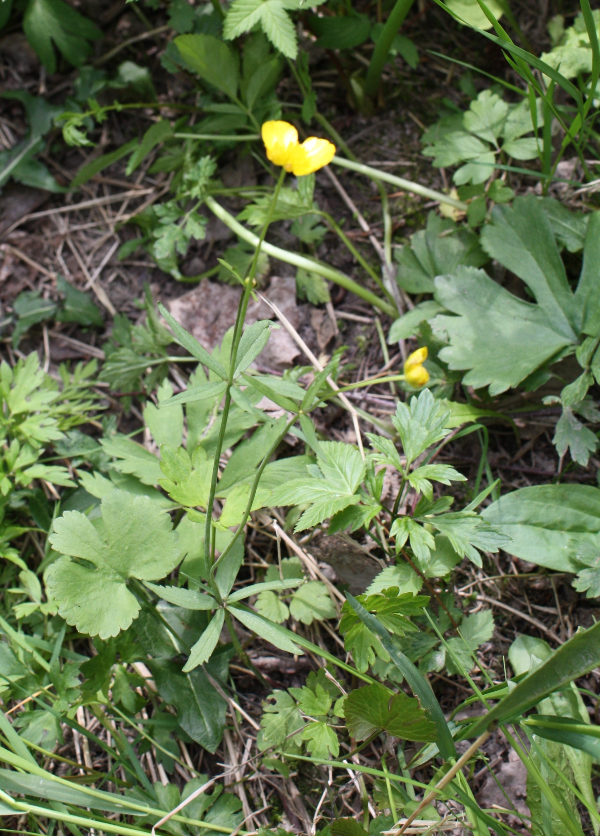 Ranunculus fallax - Lemmenlaakso Nature Reserve, Järvenpää, Finland